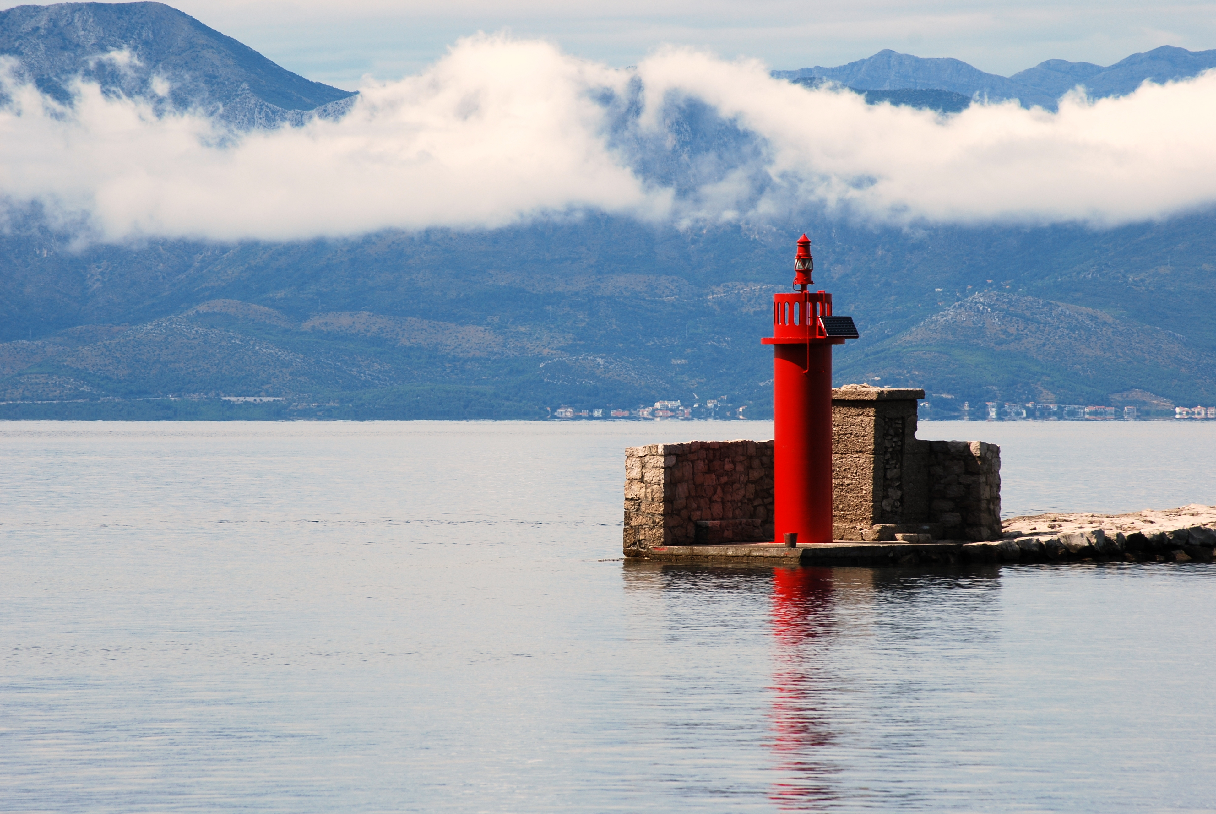 Lighthouse at the entrance to the port